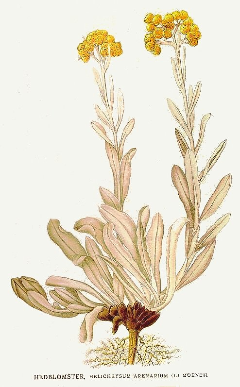 Original Description Hedblomster, Helichrysum arenarium (L.) Moench.